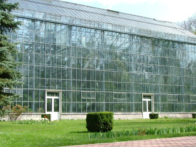 Botanical Garden in Cluj-Napoca. The Palms Glass housel.